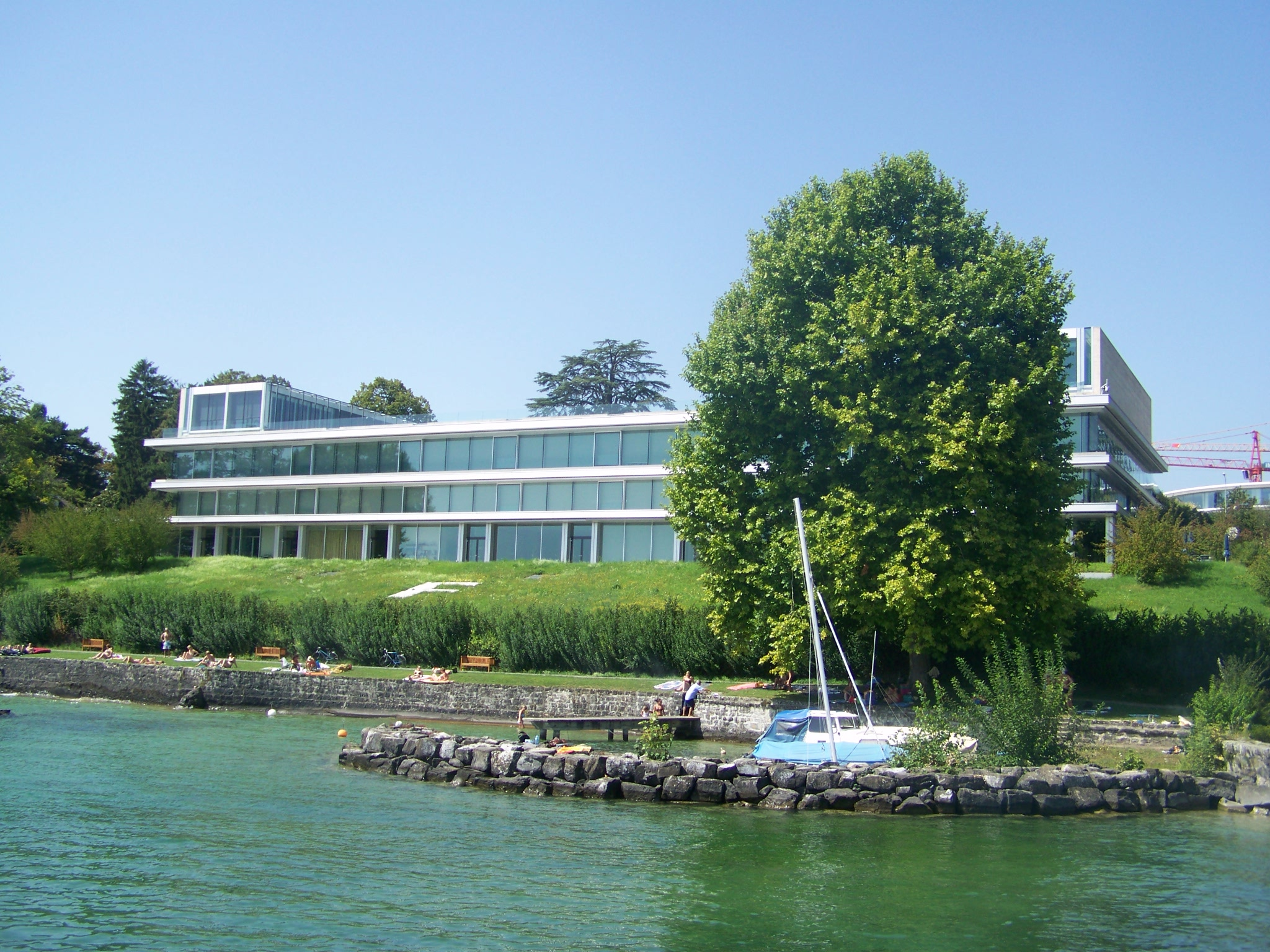 Building of UEFA (Union of European Football Associations) situated in Nyon, Switzerland.